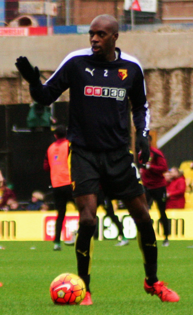 Allan Nyom